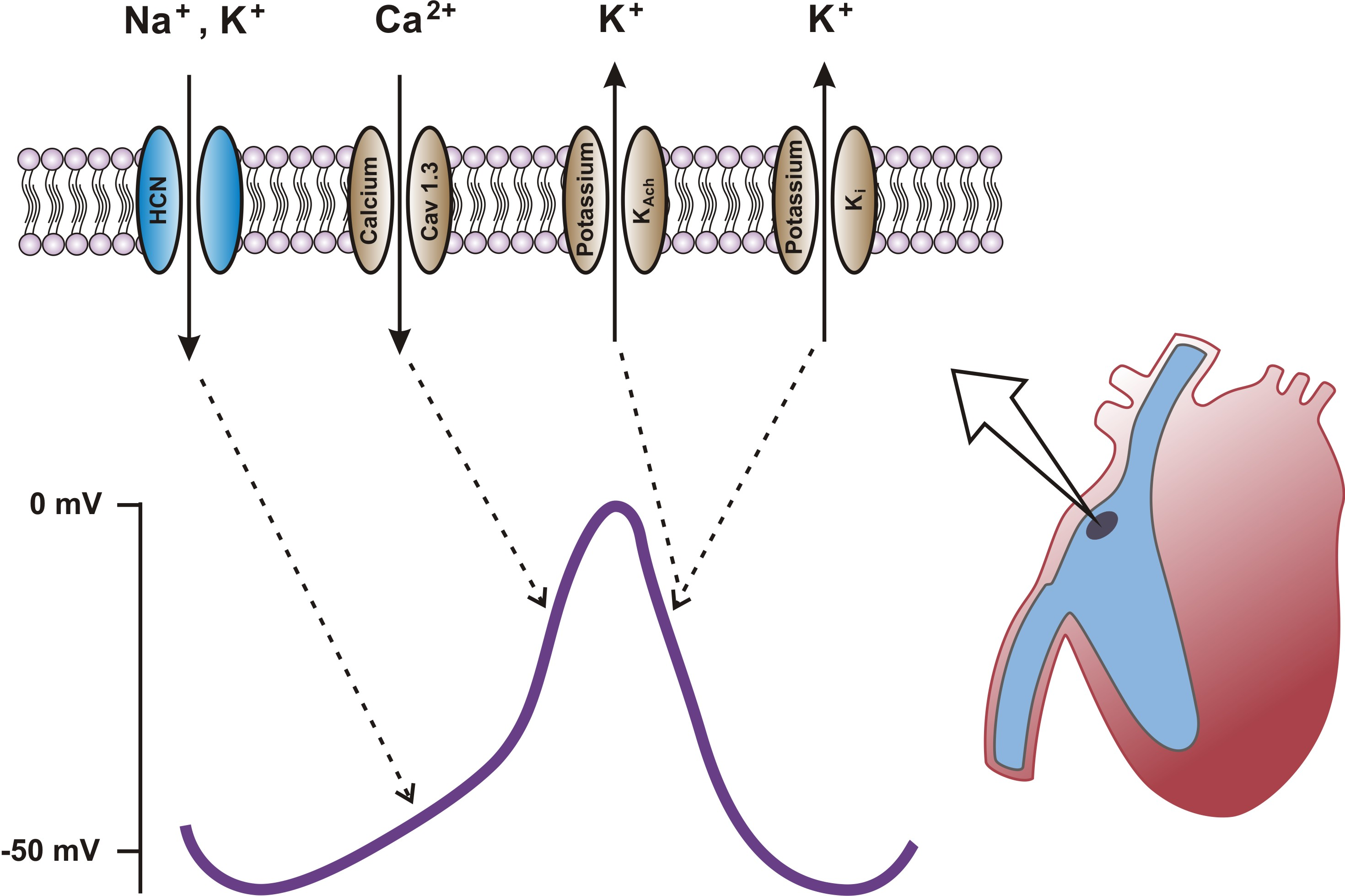 scheme of heart with sinus node, action potential and contributing ion channels